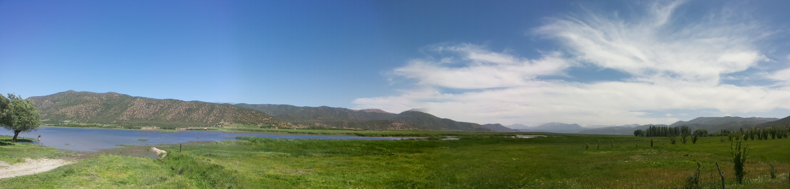 Zrebar and Mariwan plain view from Beri Begzade